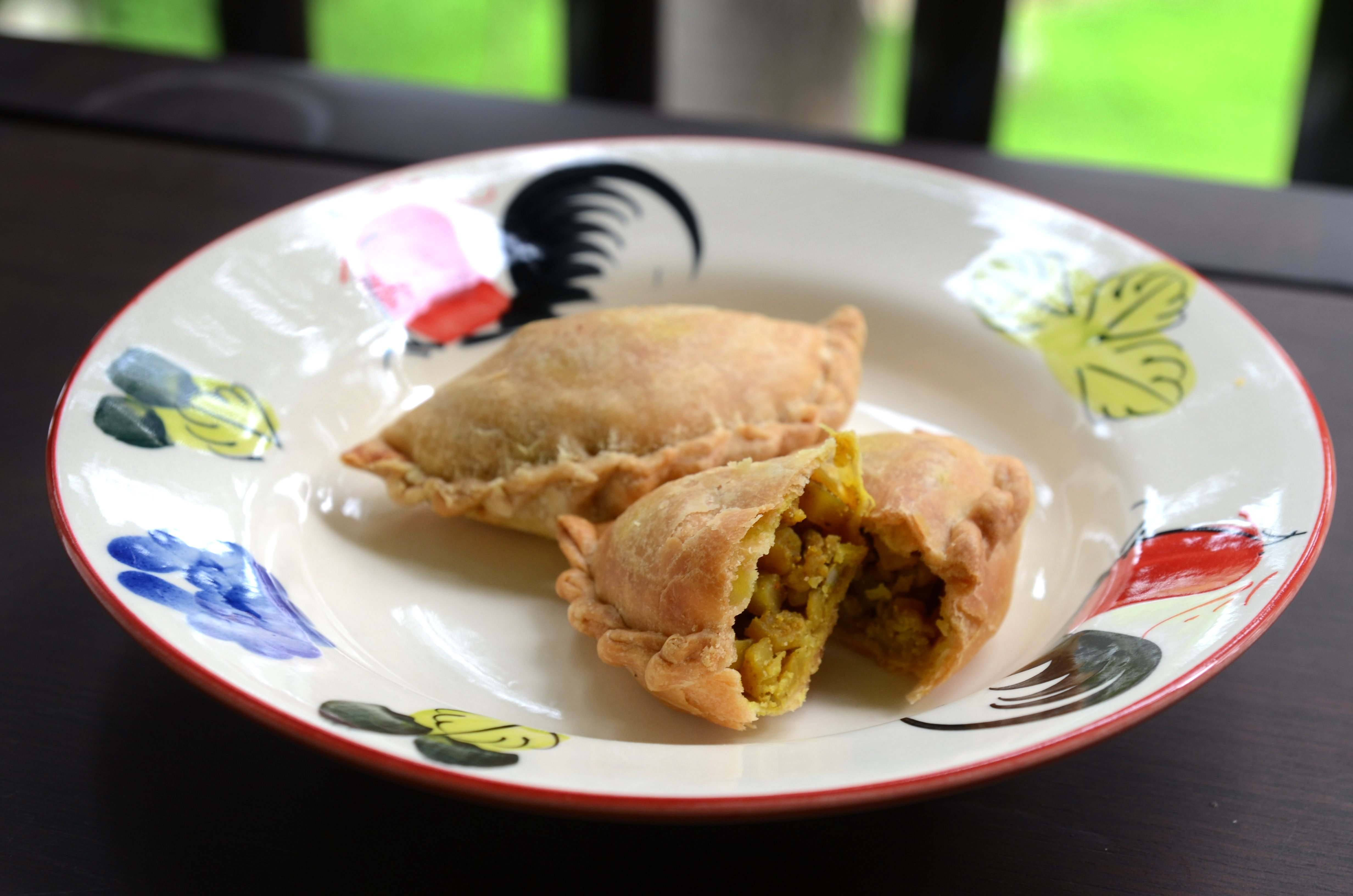 Karipap (Thai script: กะหรี่ปั๊บ): the Thai version of a "curry puff", a Malaysian, Singaporean and Thai snack. The deep-fried pastry shell contains, as is usual, a chicken and potato curry.